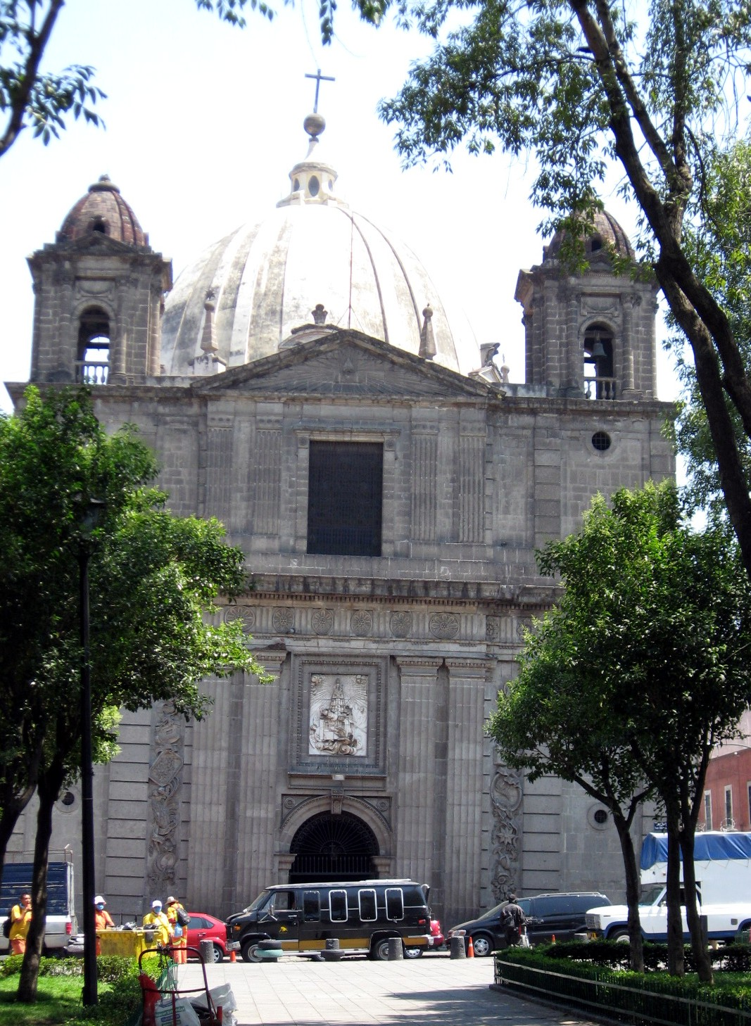 Closeup of facade of Nuestra Señora de Loreto Church in the historic center of Mexico City